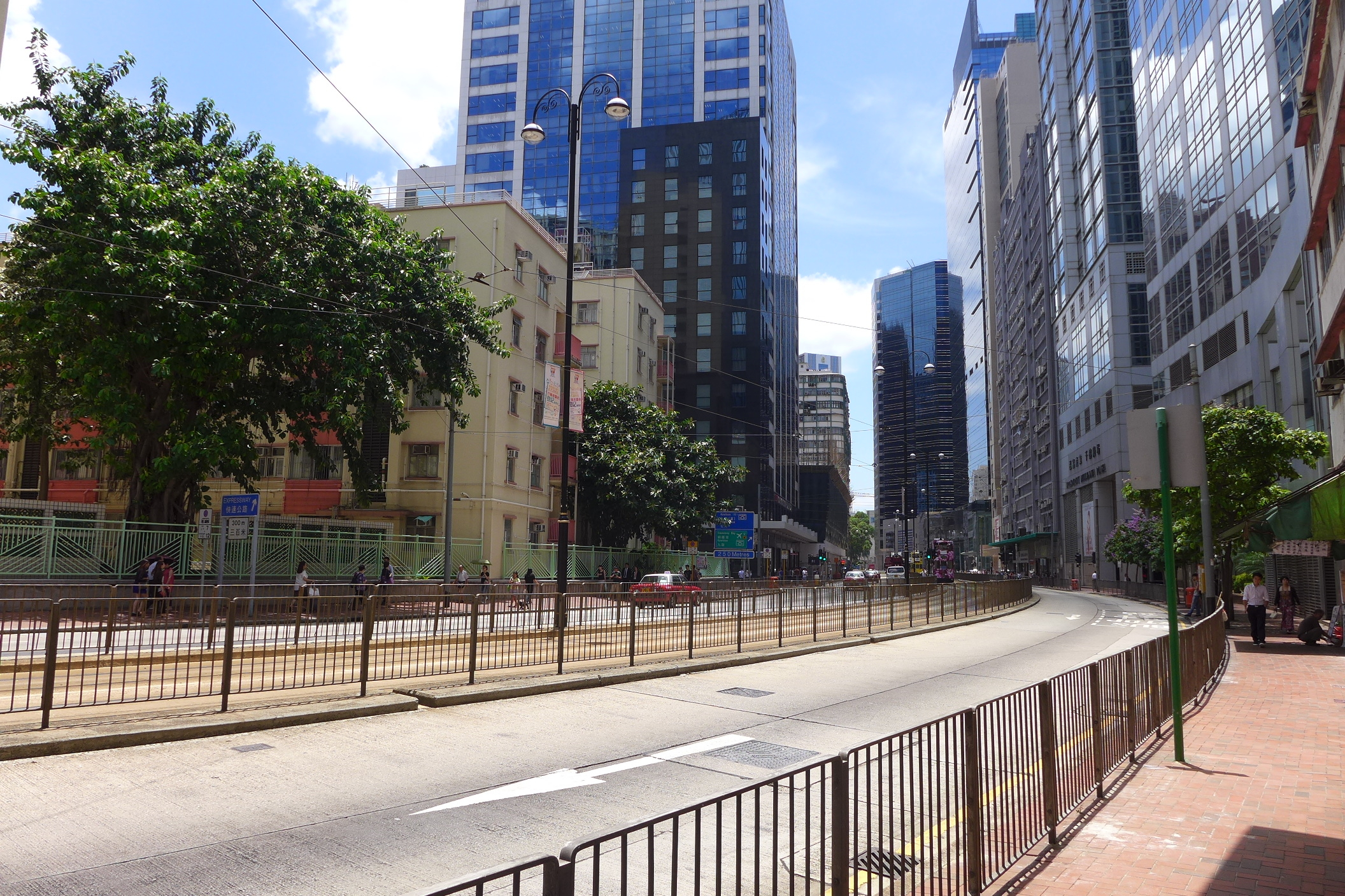 Kings's Road North Point Section